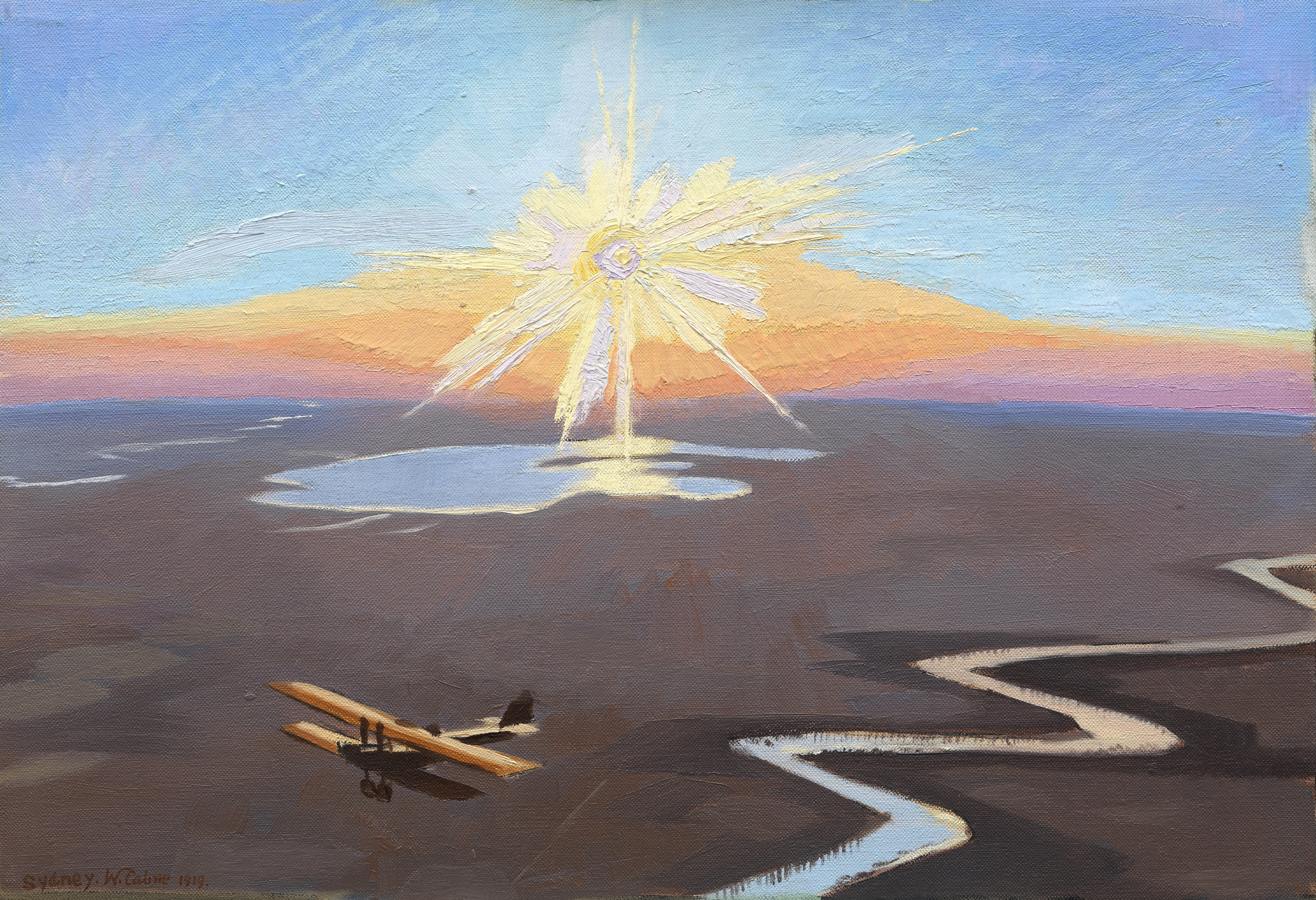 Flying Over the Desert at Sunset, Mesopotamia, 1919 image: An unnaturally bright sun blazes over a landscape with a river. There is an aircraft flying over the desert in the lower right of the composition.